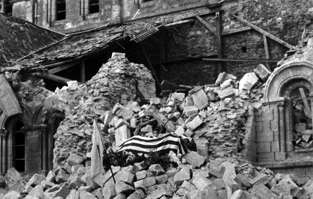 Major Howie under the USA flag, on the rubble of Le Croix church, Saint-Lô, France